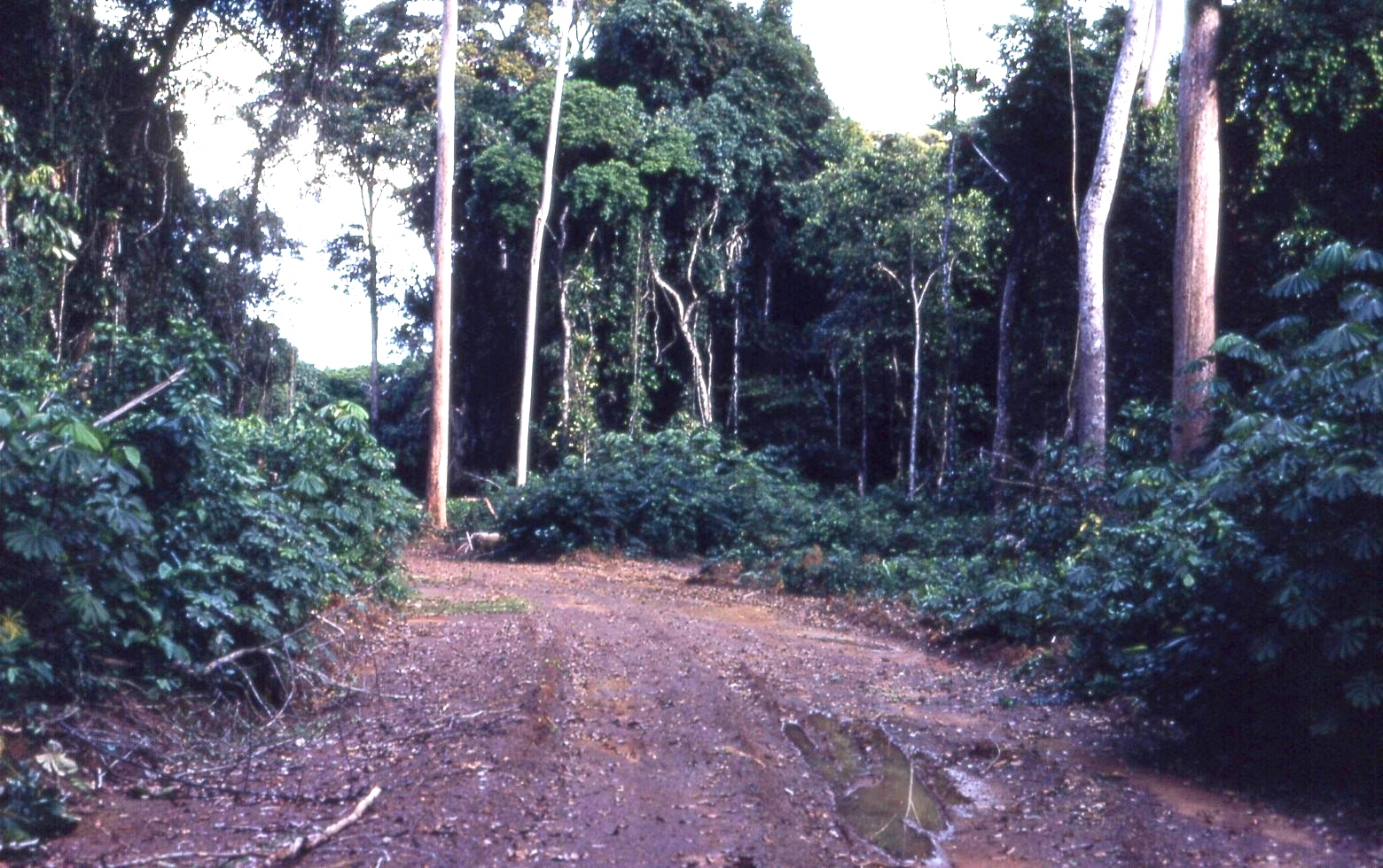 Trees on logging road near Konimbo, Liberia. Photo taken in May of 1968.